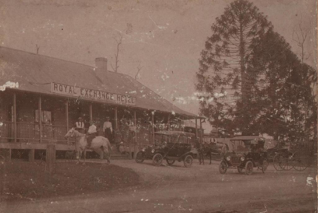 Author/photographer unknown. Royal Exchange Hotel Aspley Queensland circa 1925.